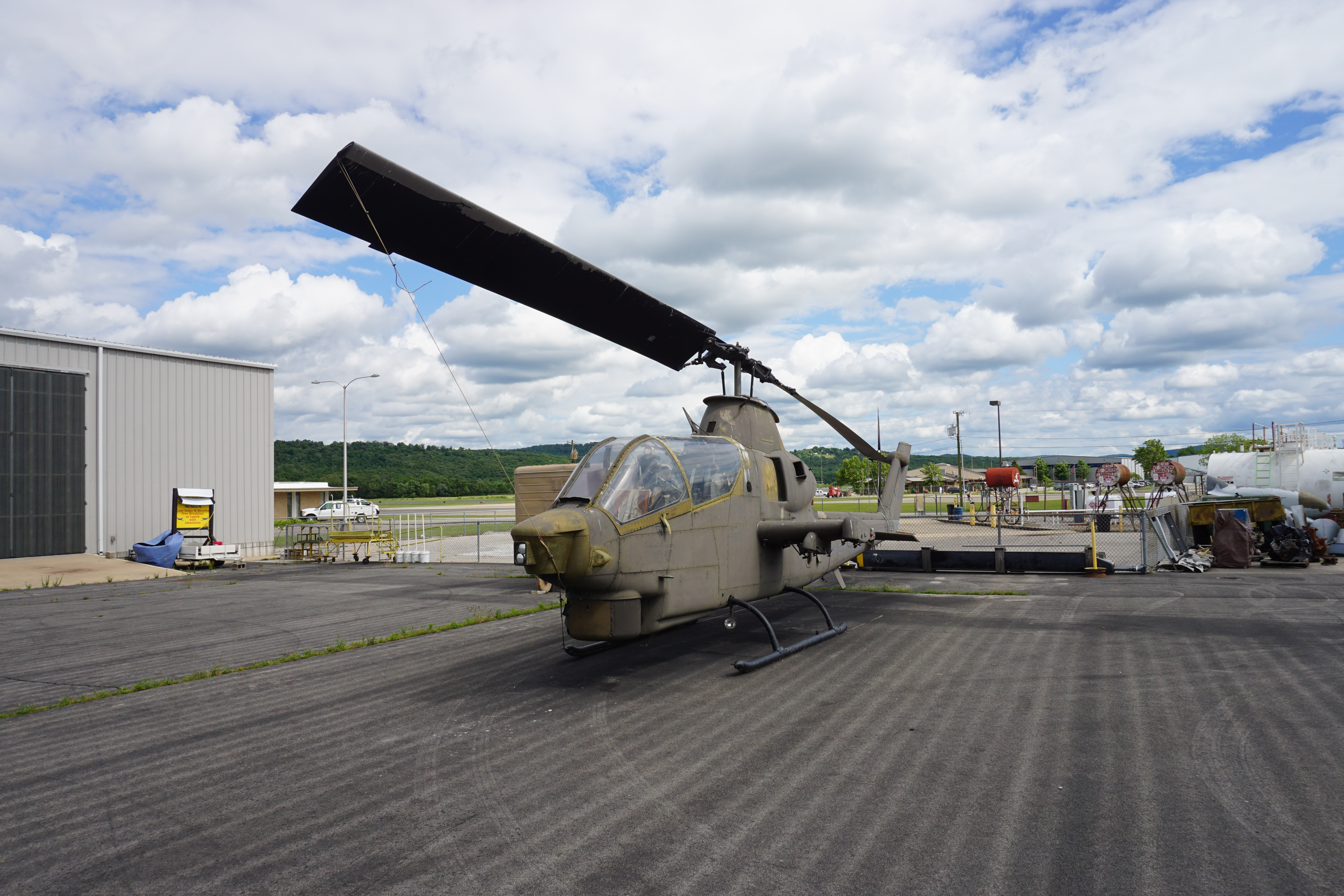 A 1970 Bell AH-1S Hueycobra at the Arkansas Air & Military Museum in Fayetteville, Arkansas (United States).